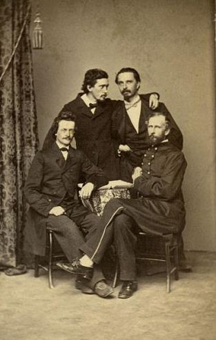 A photo of four members of the Megatherium Club. Standing L-R: Robert Kennicott and Henry Ulke. Seated L-R: William Stimpson and Henry Bryant.